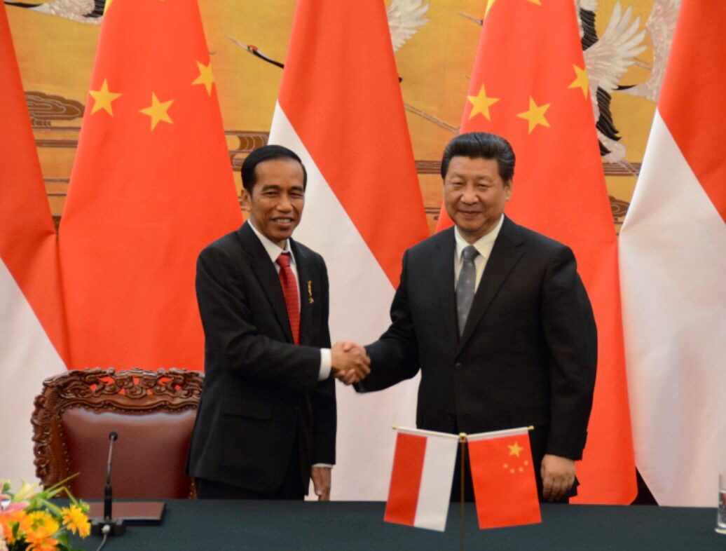 Joko Widodo meeting Xi Jinping, March 2015